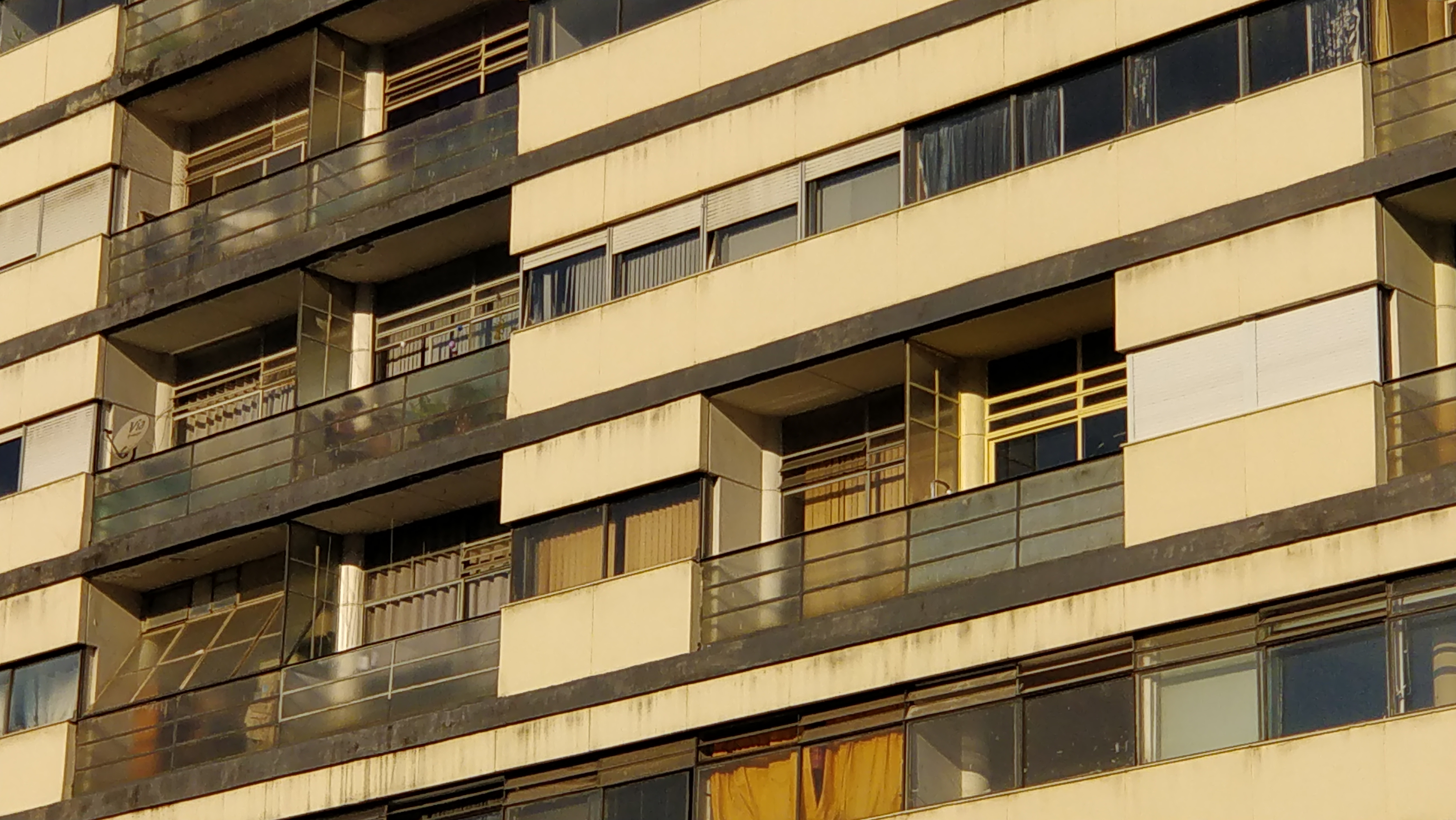 Detail of Edifício Esther, São Paulo